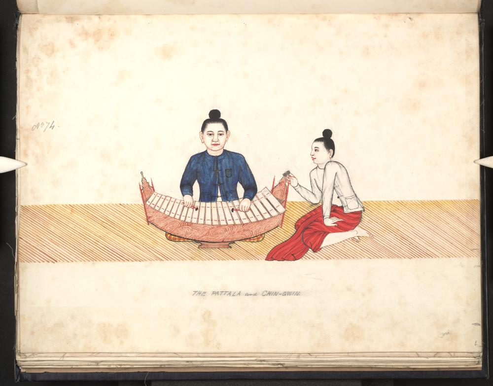 Watercolour painting by an unknown Burmese artist depicting 19th century Burmese life. Text; The PATTALA and CHIN-GWIN. Shelfmark: Ms. Burm. a. 5